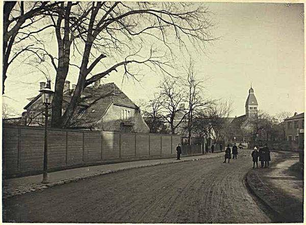 Howitzvej, looking east, in Frederiksberg, Copenhagen, Denmark